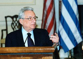 Petros Molyviatis, Minister of Foreign Affairs of the Hellenic Republic (Greece)